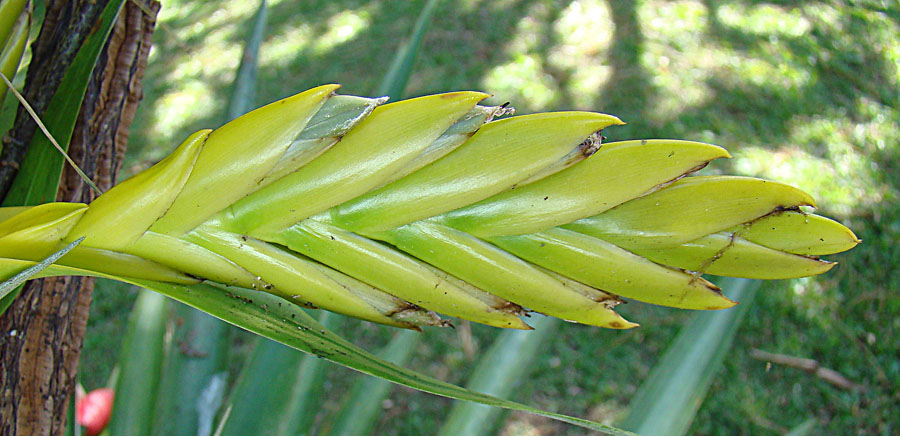 A close view of the flower bracts of the Golden Bromeliad. In context at